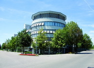 Headquarters of the Pilz GmbH & Co. KG in Ostfildern, Germany